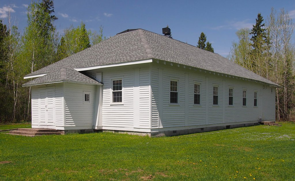 Western Bohemian Fraternal Union Hall, Meadowlands Township, Minnesota, USA. Viewed from the southeast.